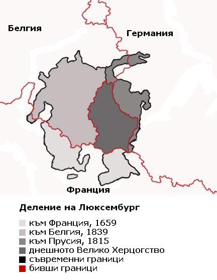 Map showing the partition of Luxembourg through the centuries with Bulgarian explanations.